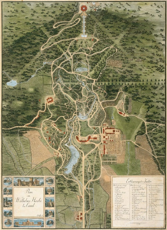 historic map of Bergpark Wilhelmshöhe, ca. 1810